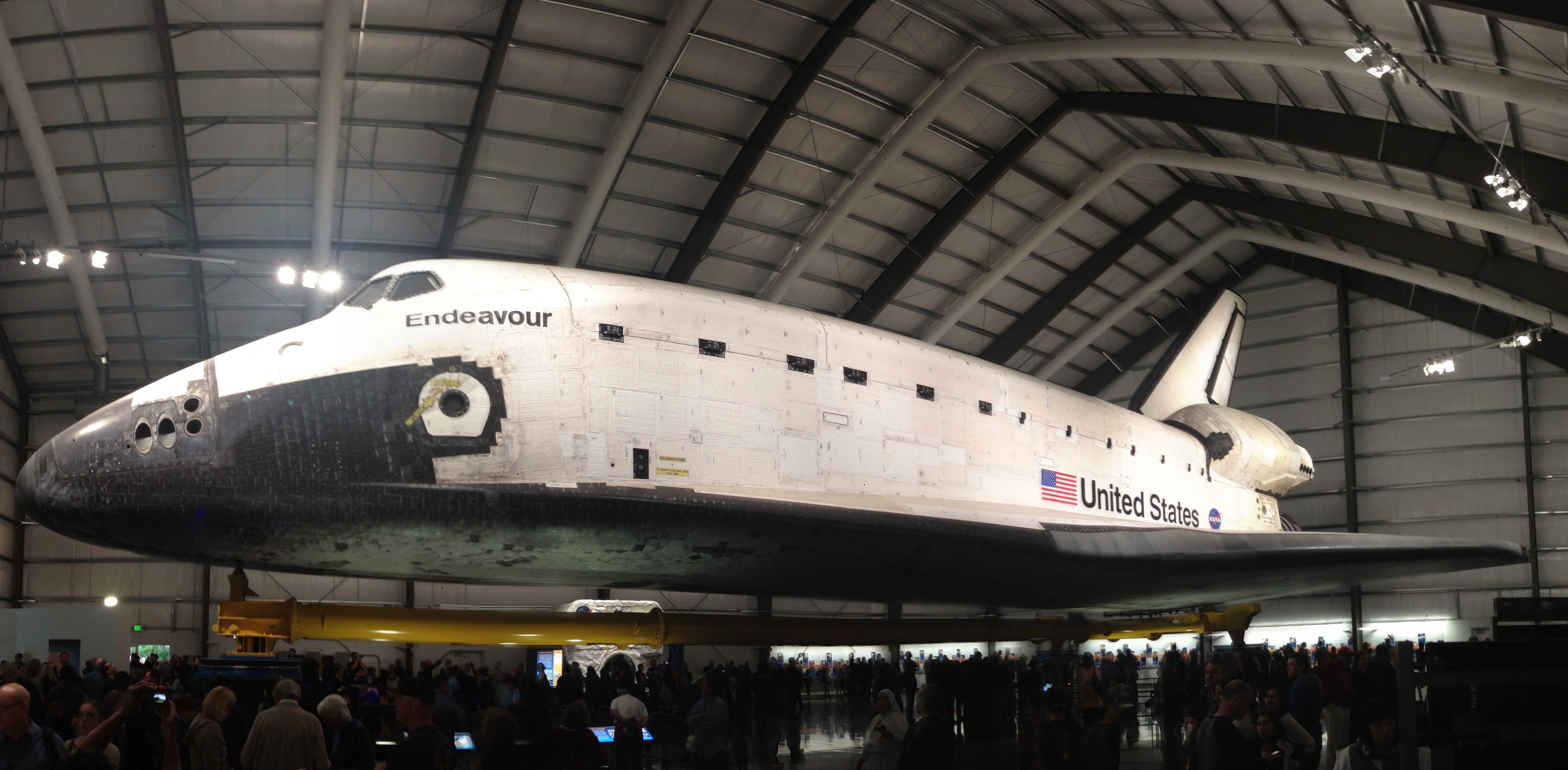 The Space Shuttle Endeavour on display at the California Science Center in Los Angeles, CA. Photo is a stitched panorama of four images taken by an iPhone 5.